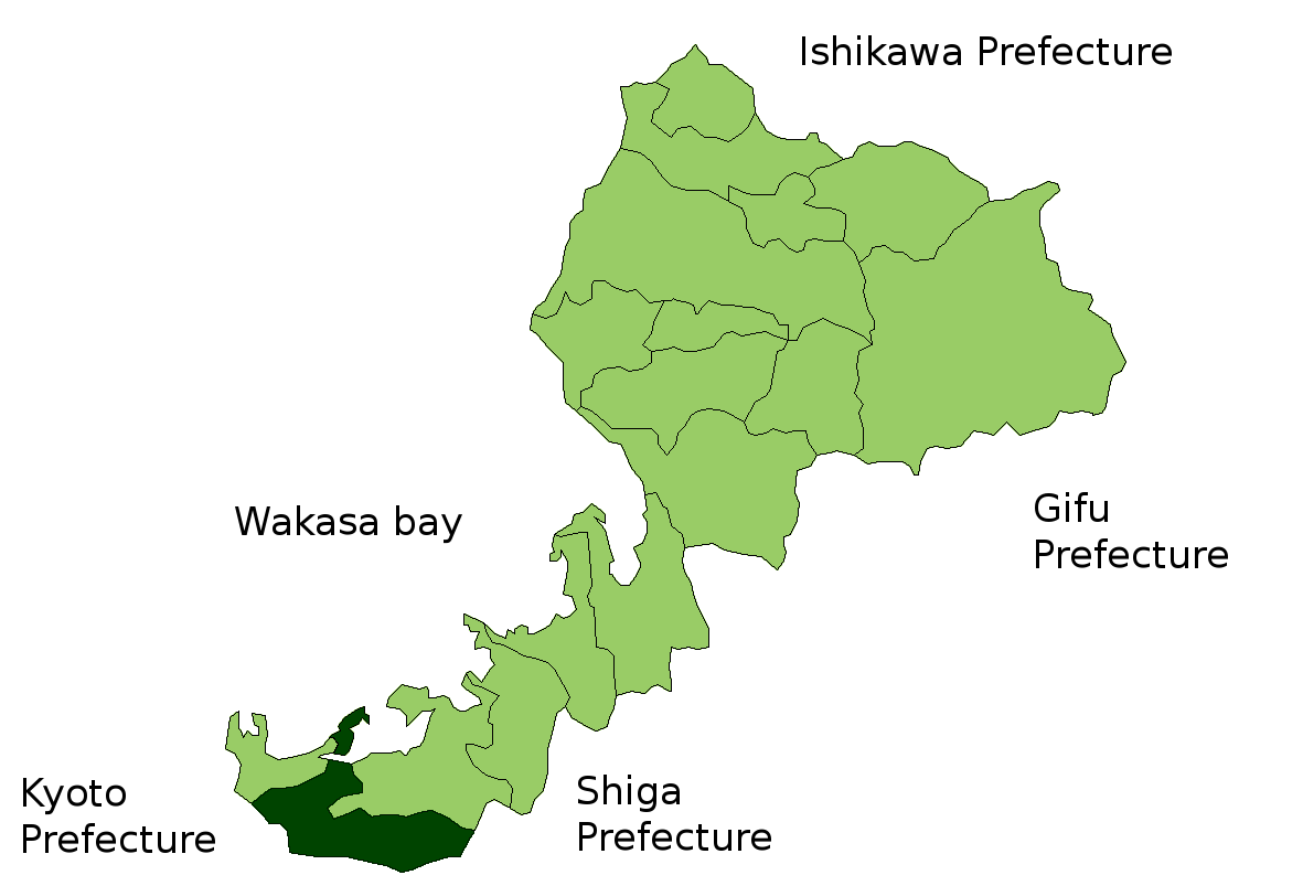 Map of Fukui Prefecture highlighting Ooi town. Borders of map as of November, 2006. (blank map used from [1]) See also Image:FukuiMapCurrent.png